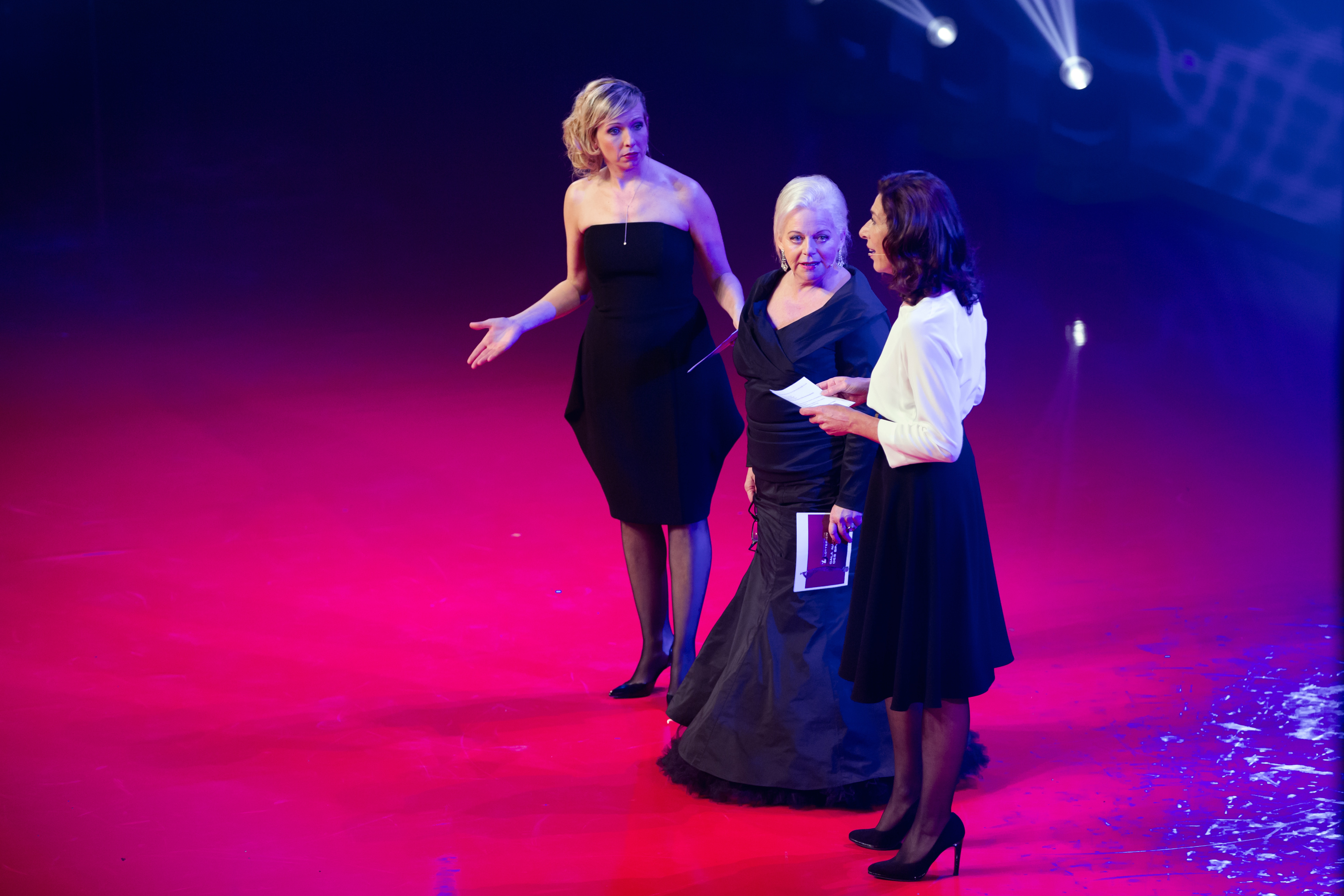 Adele Neuhauser (r.), Brigitte Kren and Martina Poel (l.) as laudators at the awards gala for the Austrian Sportspersonalities of the Year 2015 (Austria Center Vienna).